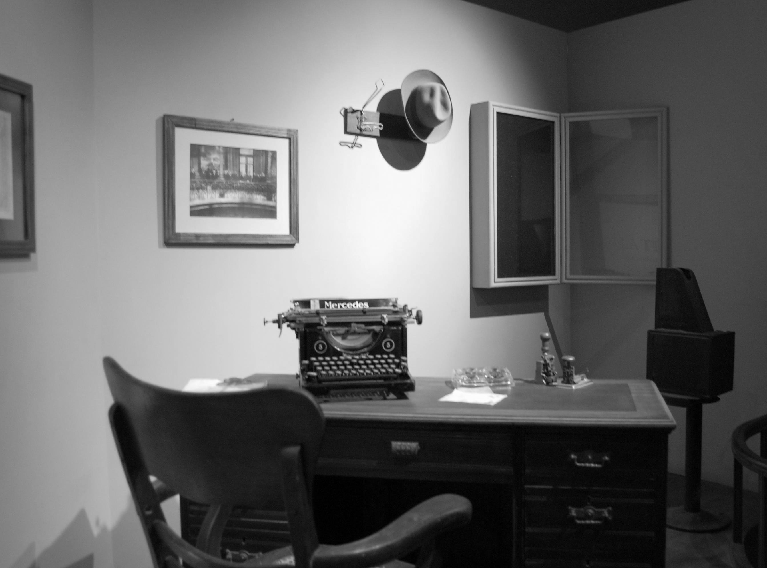 Francisco Pascasio Moreno's Office representation, in La Plata Museum, Argentina.